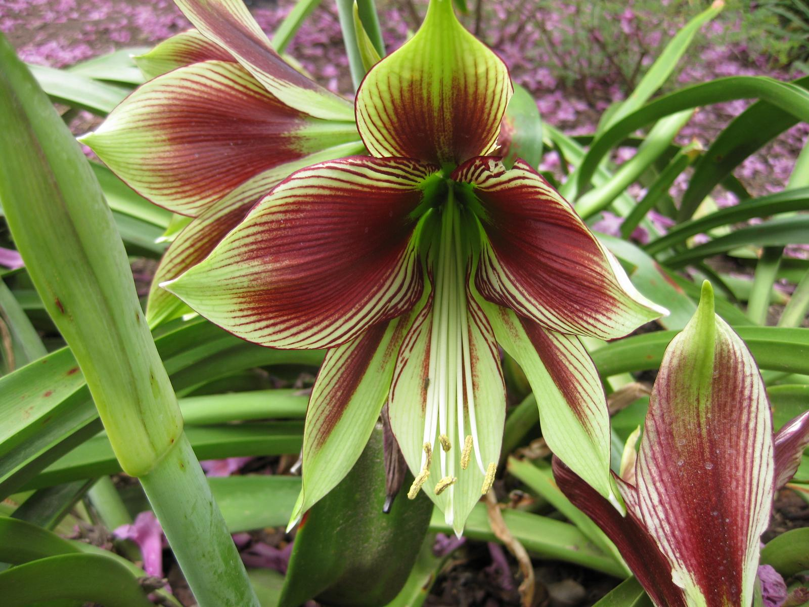 Photographed at Huntington Gardens (Los Angeles) in April